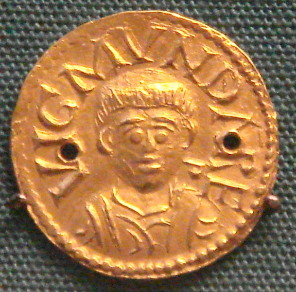 Wigmund_archibishop_of_York_837_854_gold_solidus